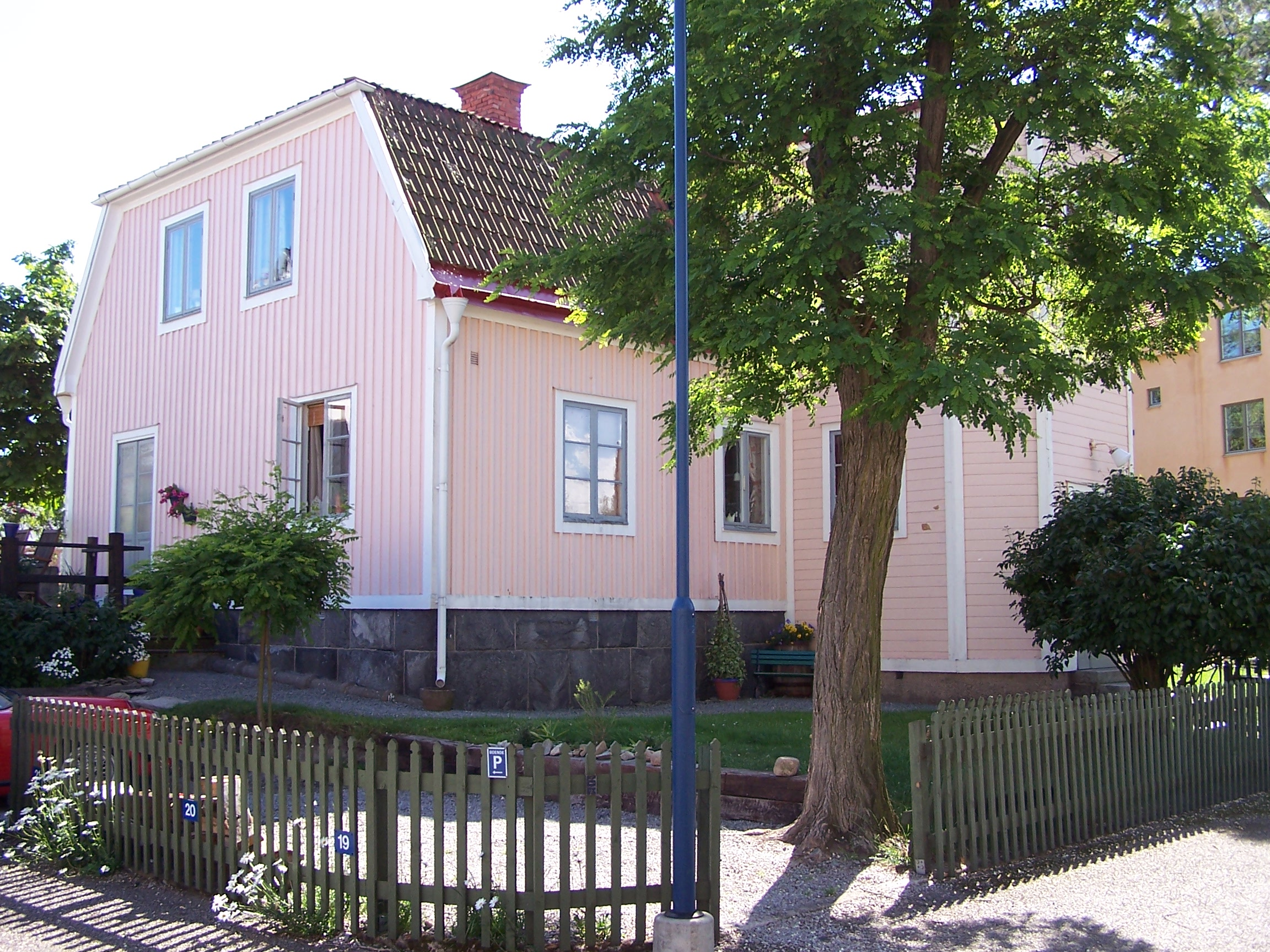 The western villa ("Hvite krog", the white tavern), Stumholmen, Karlskrona